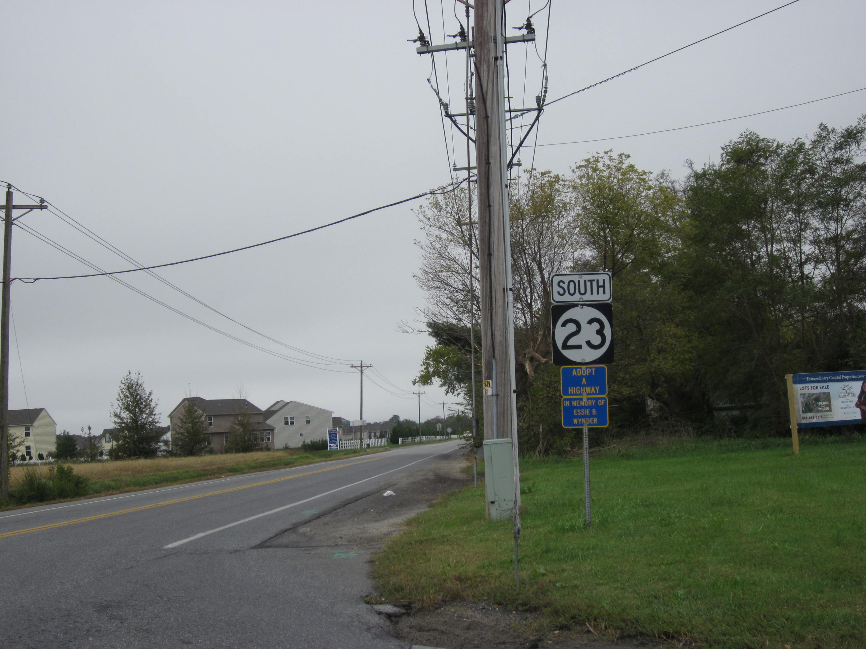 Delaware State Route 23 southbound past Delaware Route 1D in Five Points